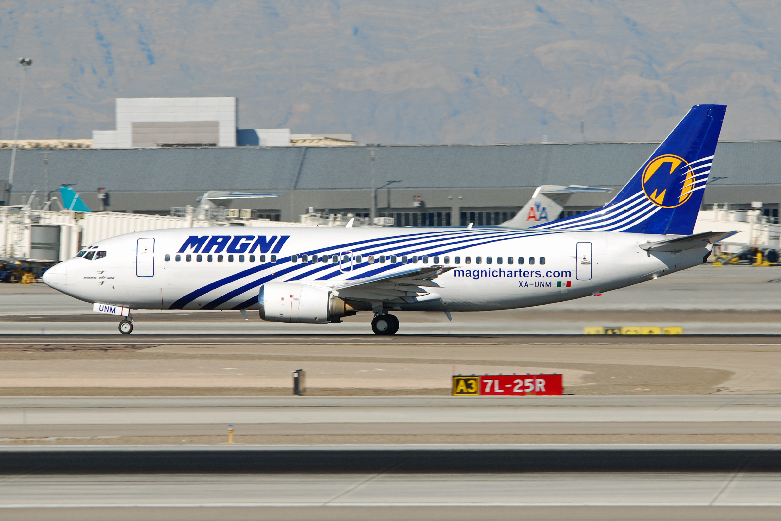 Magnicharters Boeing 737-322 (XA-UNM) at Las Vegas McCarran International Airport